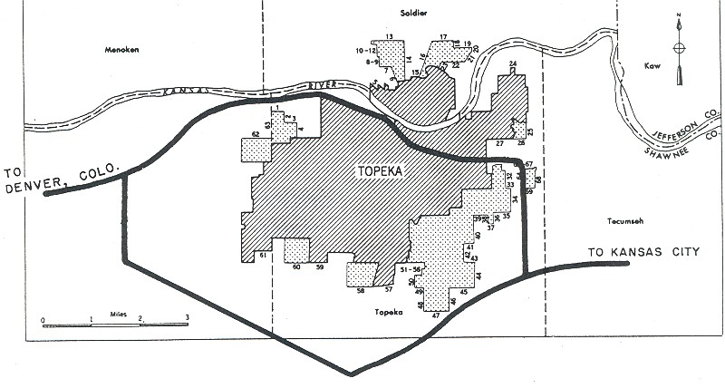 Interstates in today's terms I-70 I-470